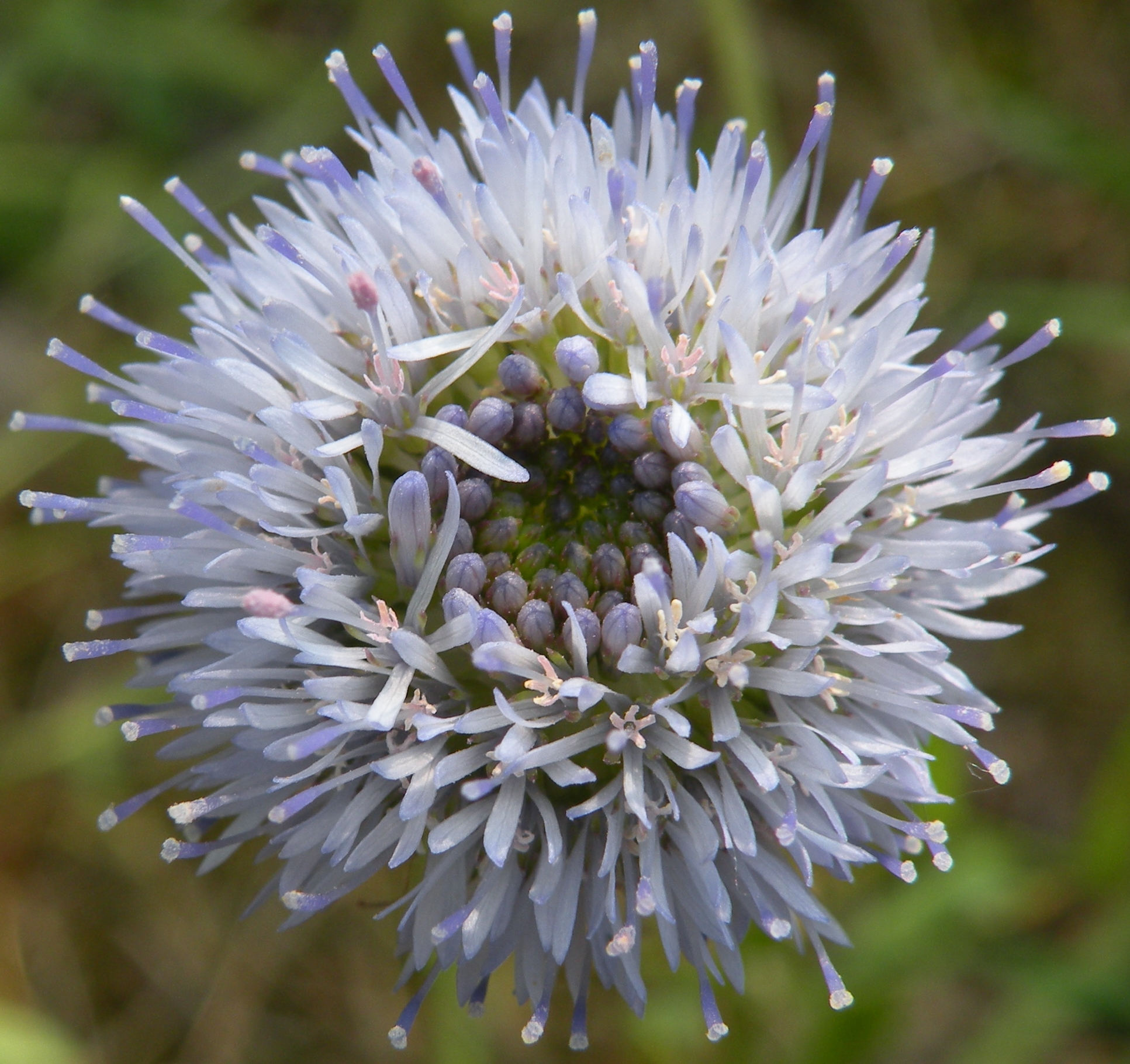 Inflorescence of the jasione montana.